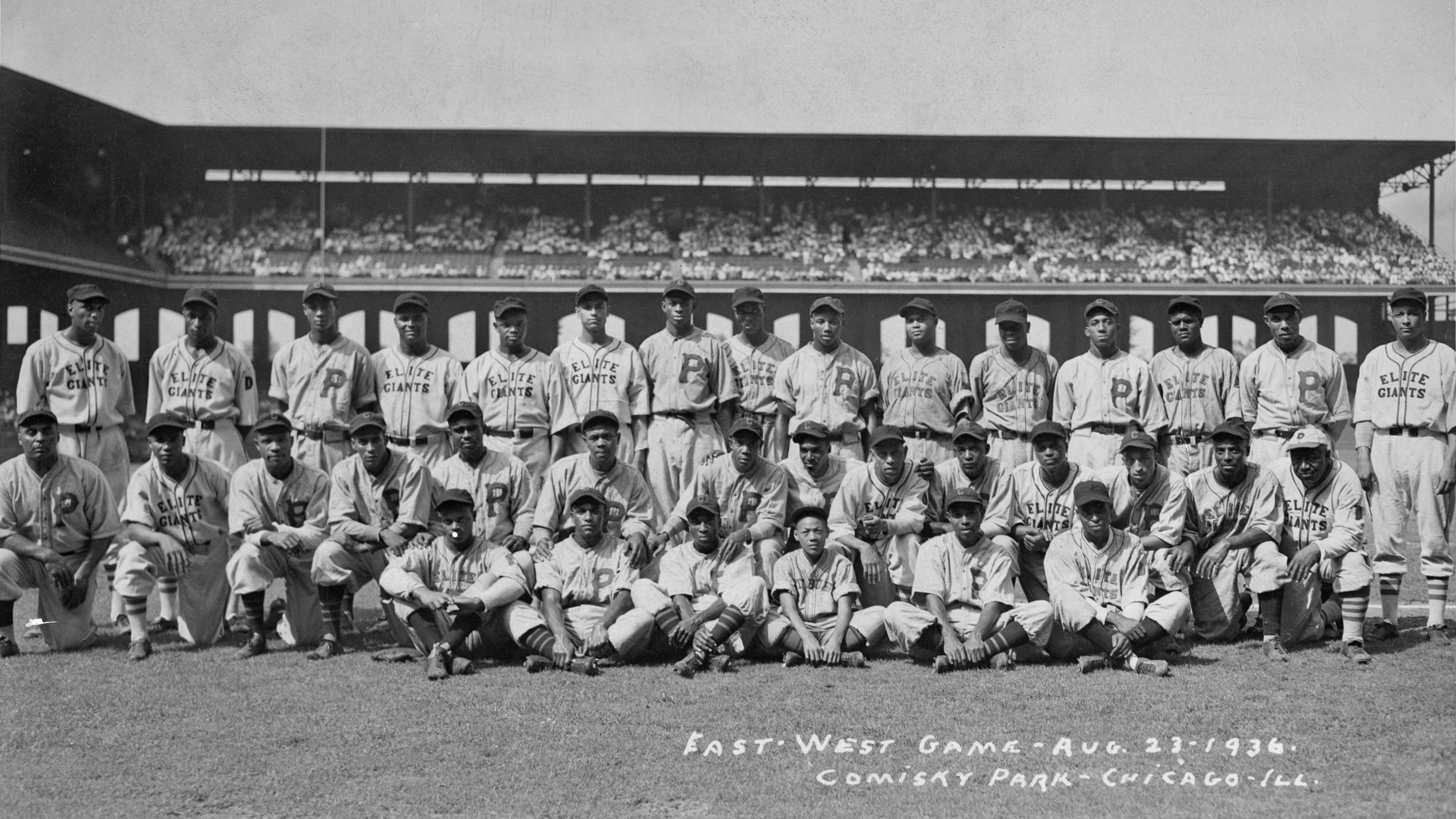 The fourth Negro League All-Star Game, a battle between the best of the East and West at Chicago's Comiskey Park on August 23, 1936. The game featured Hall of Fameers talent such as Josh Gibson, Satchel Paige, Cool Papa Bell, Willard Brown and Biz Mackie, each of whom is pictured here.